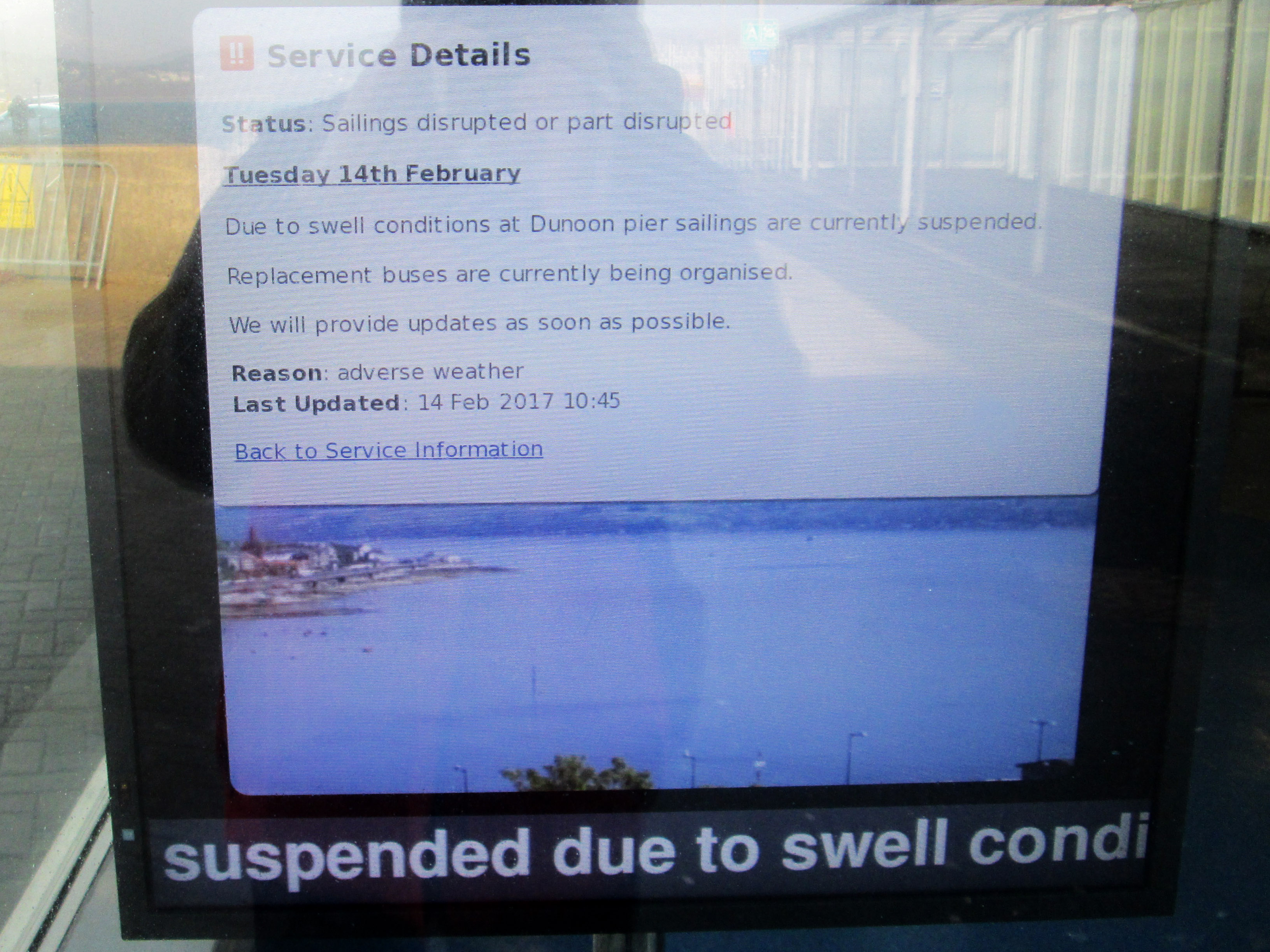 Gourock Pier: service details notice at Argyll Ferries waiting room, Gourock–Dunoon sailings suspended due to swell conditions at Dunoon pier.